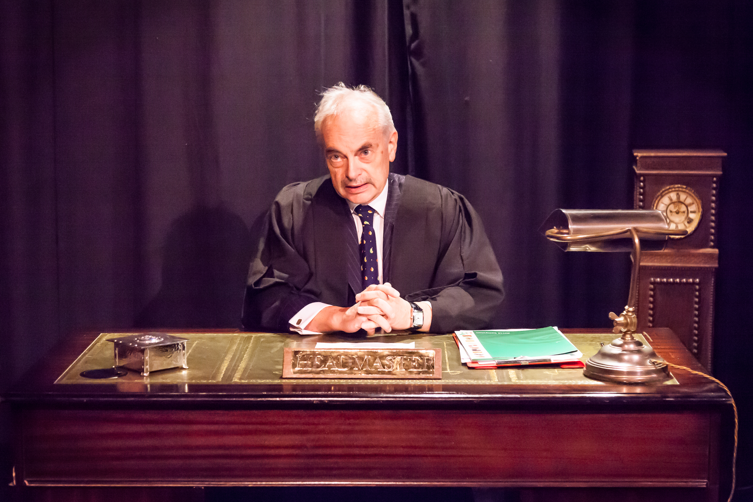 The Headmaster, in a 2013 production of The History Boys by OVO theatre company, St Albans, UK